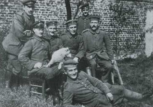 Hitler as a soldier during the First World War (1914 - 1918), Hitler is sitting right.